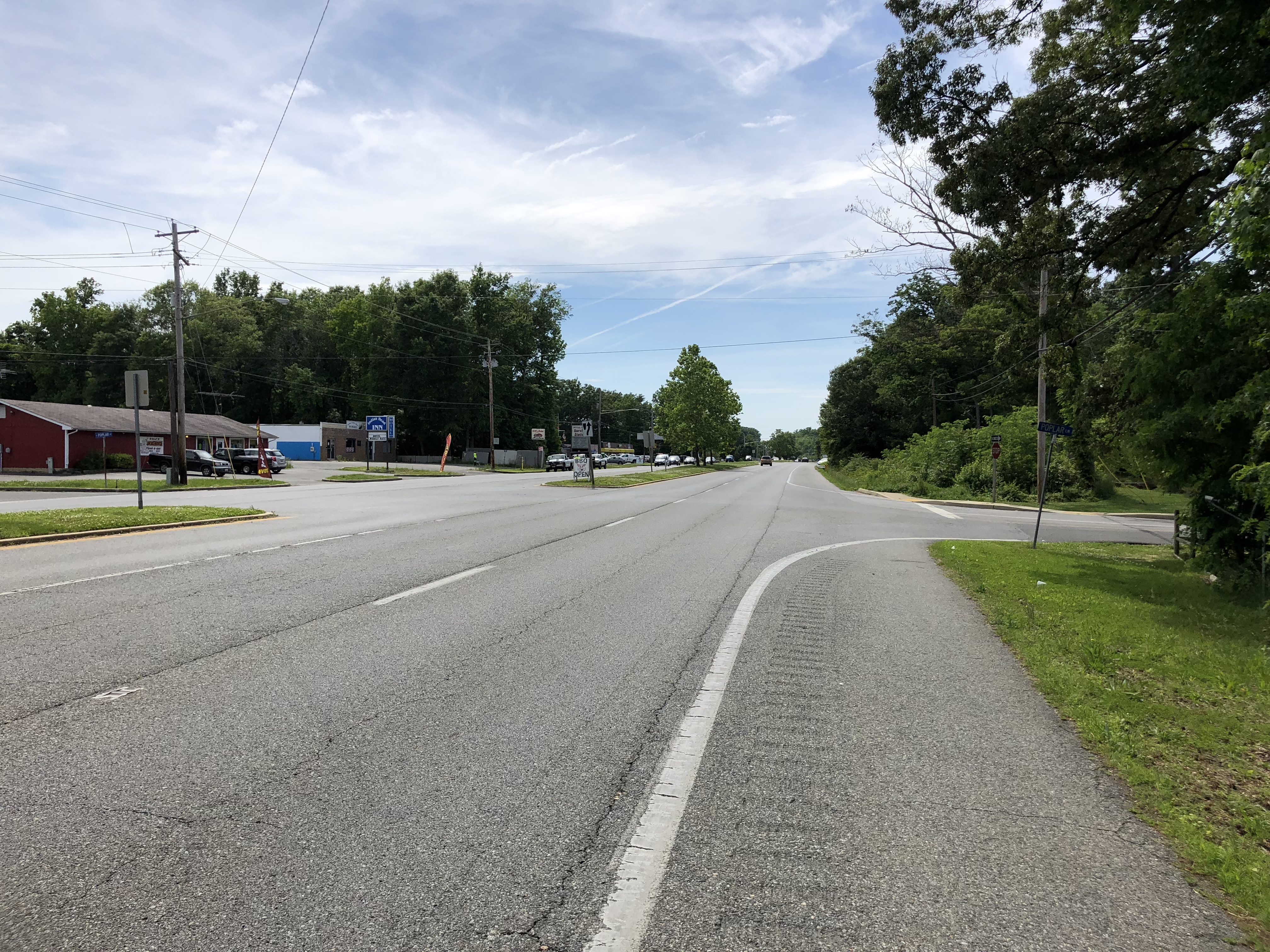 View south along Maryland State Route 210 (Indian Head Highway) at Poplar Lane in Indian Head, Charles County, Maryland